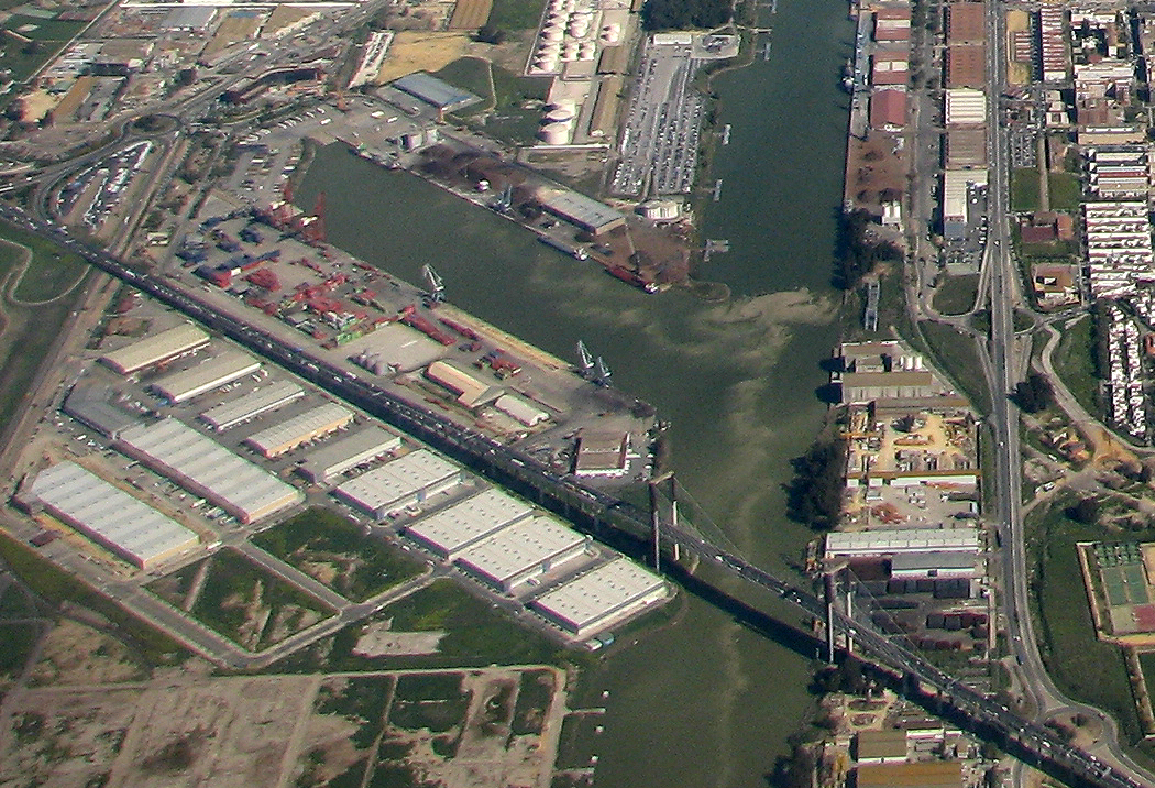 Aerial Photo of Seville from approx. 6500 ft / 2000 m height. Viewing direction north.